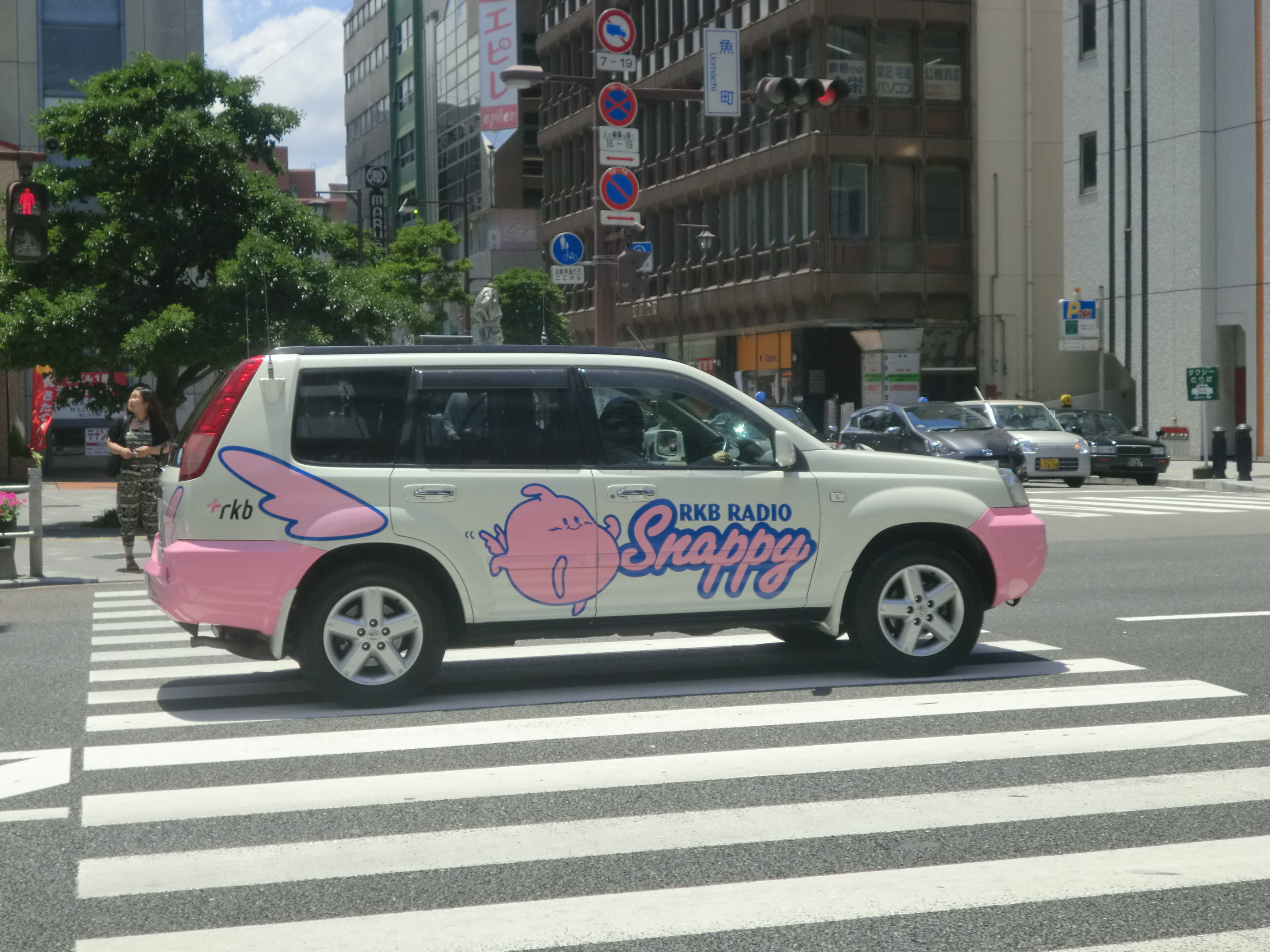 RKB Mainichi Broadcasting's radio car "Snappy".Photographed in Kitakyushu,Fukuoka,Japan.